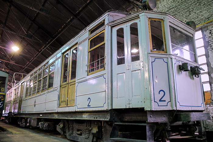 Tram inside the Polverin workshop.